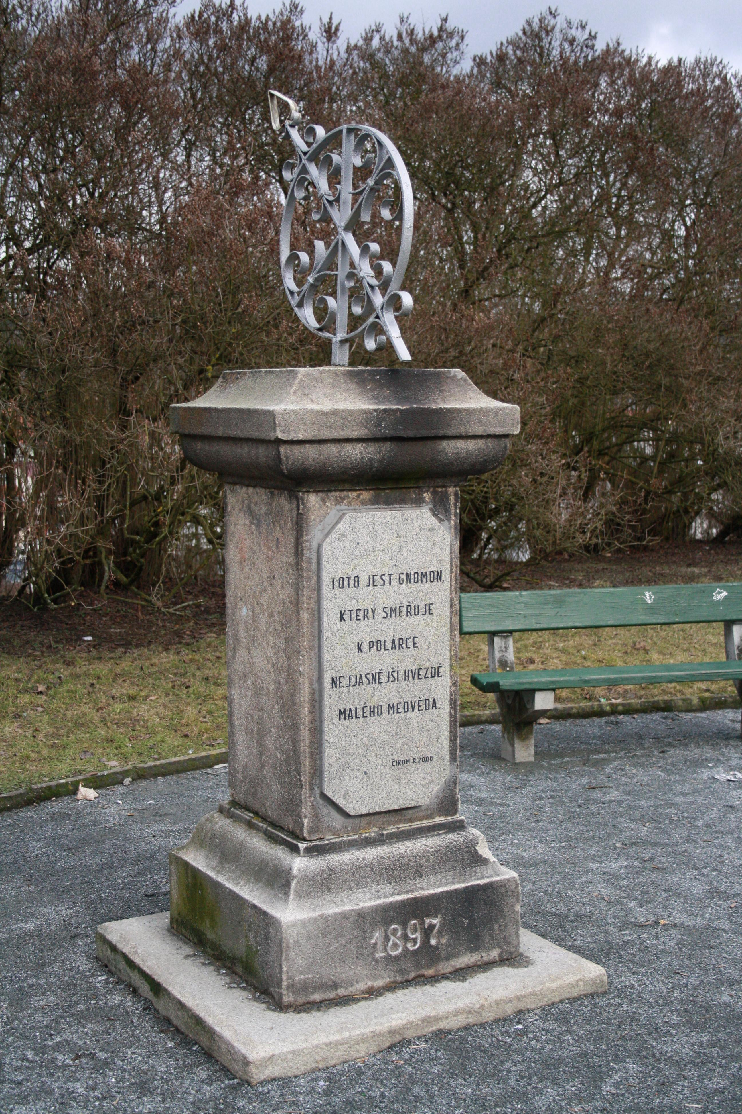 Gnomon stone in Třebíč, Czech Republic.